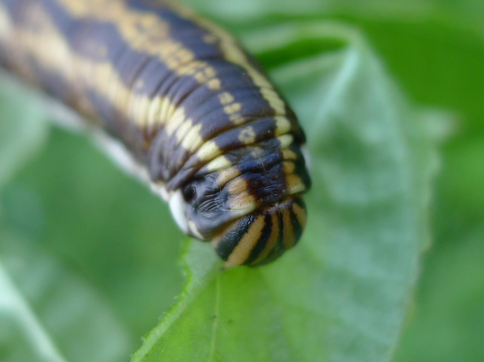 Face of a brown striped caterpillar. Possibly a Convolvulus Hawk-moth, Agrius convolvuli. Poon Saan, Christmas Island, Australia, April 2011.